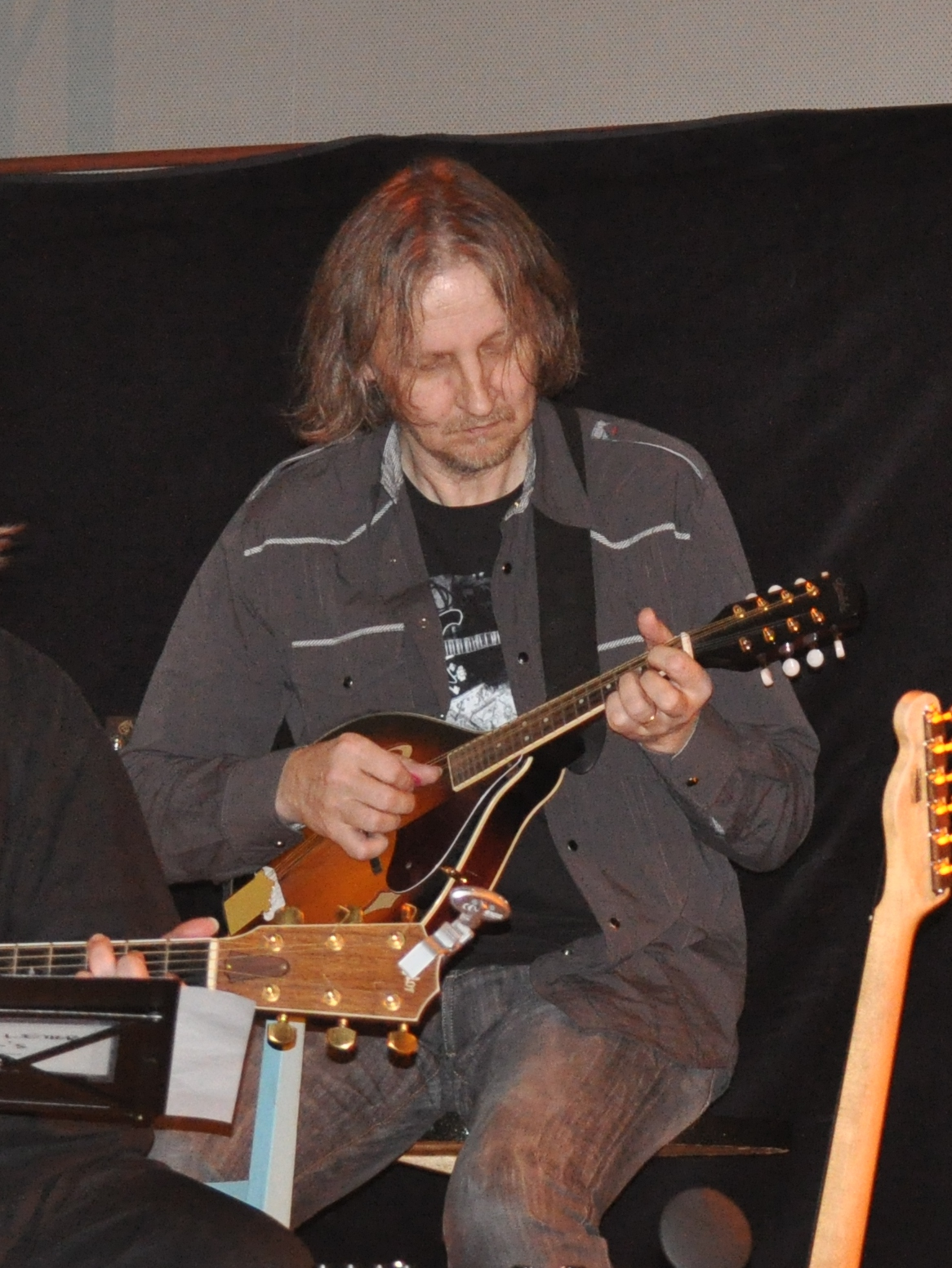 Finnish guitarist Jarmo Nikku at a gig with Hoedown in Turku, 2010.